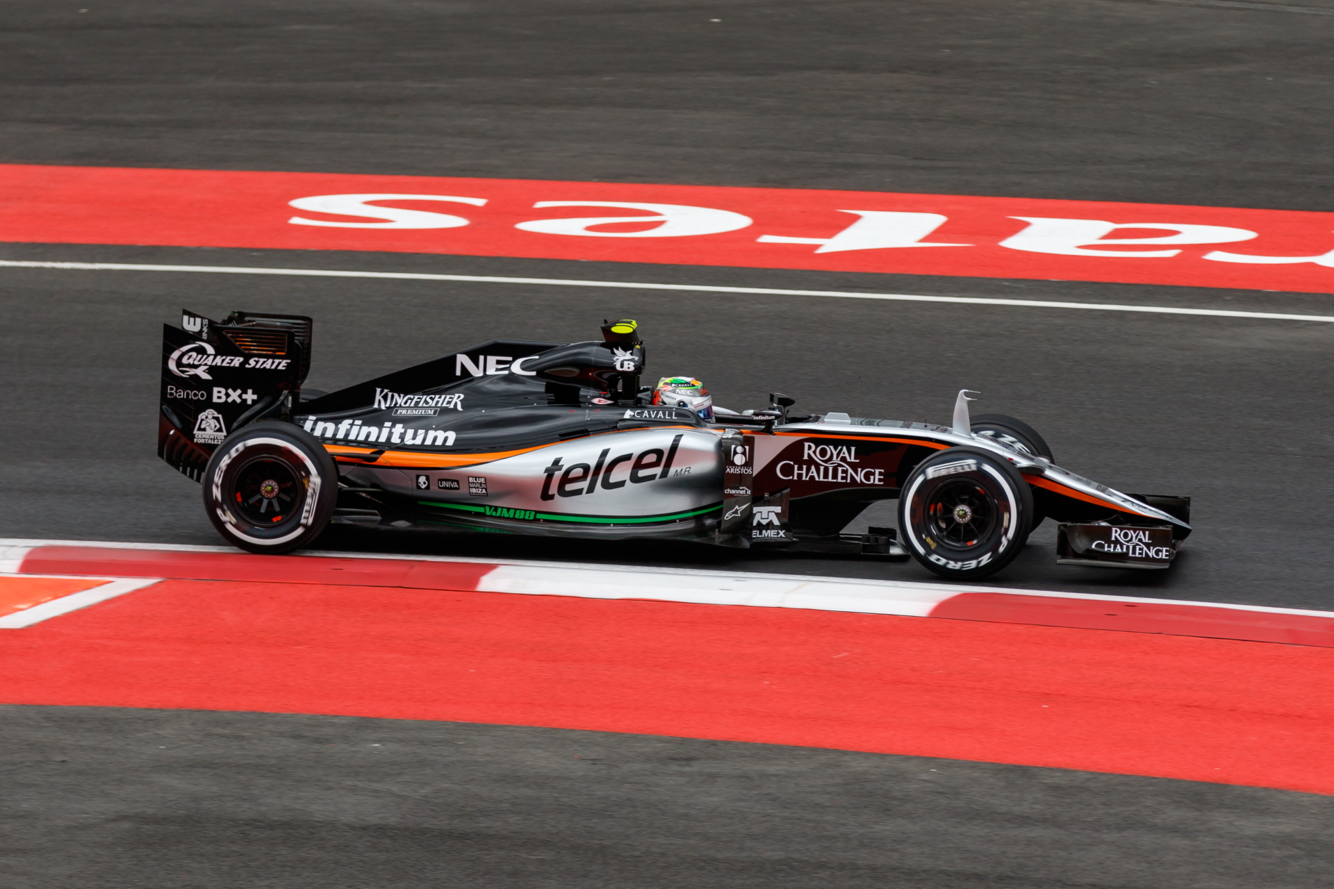 Sergio Pérez at the 2015 Mexican Grand Prix